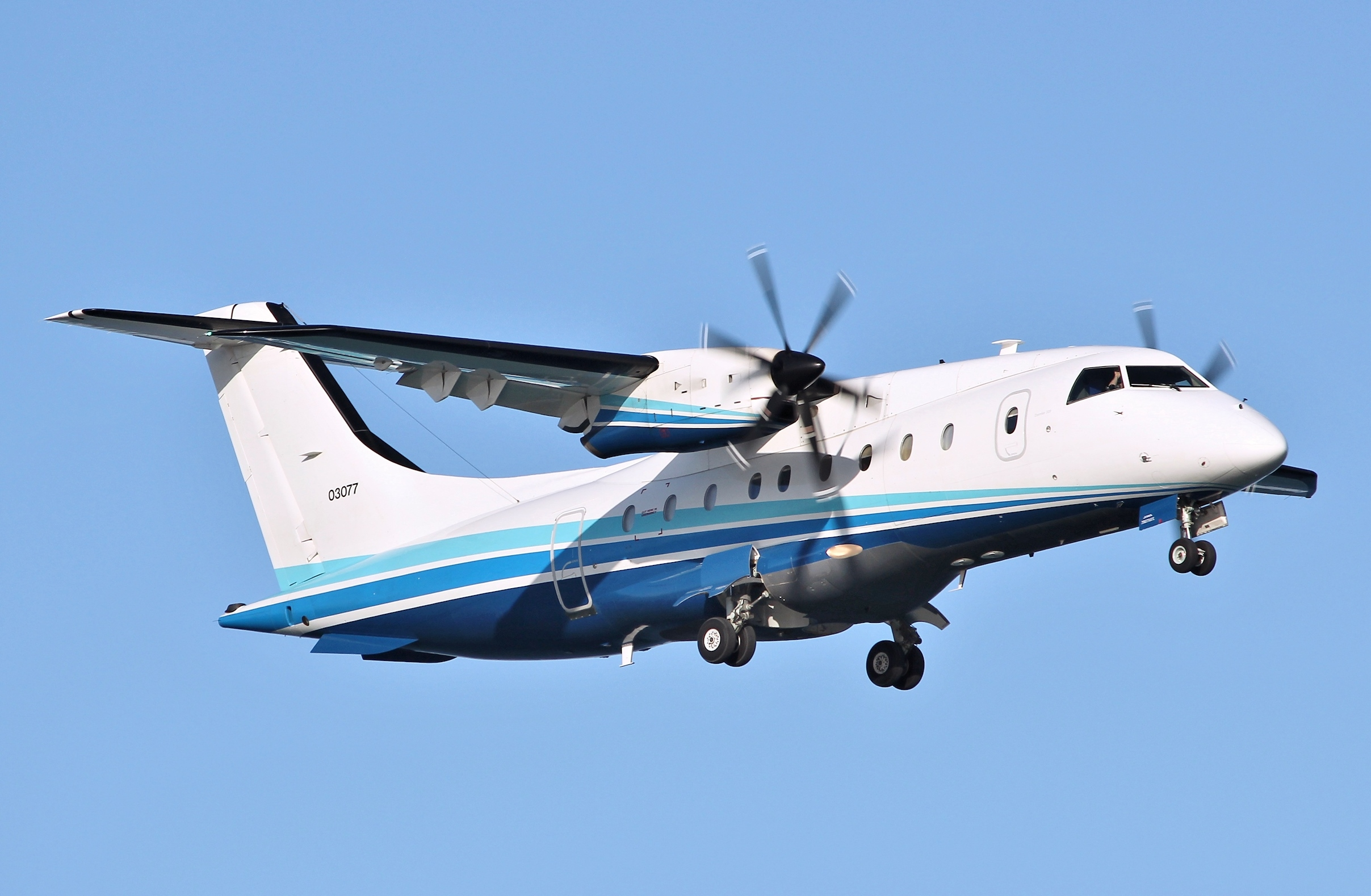 Dornier C-146A Wolfhound (version of Do-328), registration 10-3077. Operating for 524th Special Operations Squadron with 27th Special Operations Wing of United States Air Force. Landing at Larnaca International Airport. Image taken from MacKenzie Beach in Larnaca.